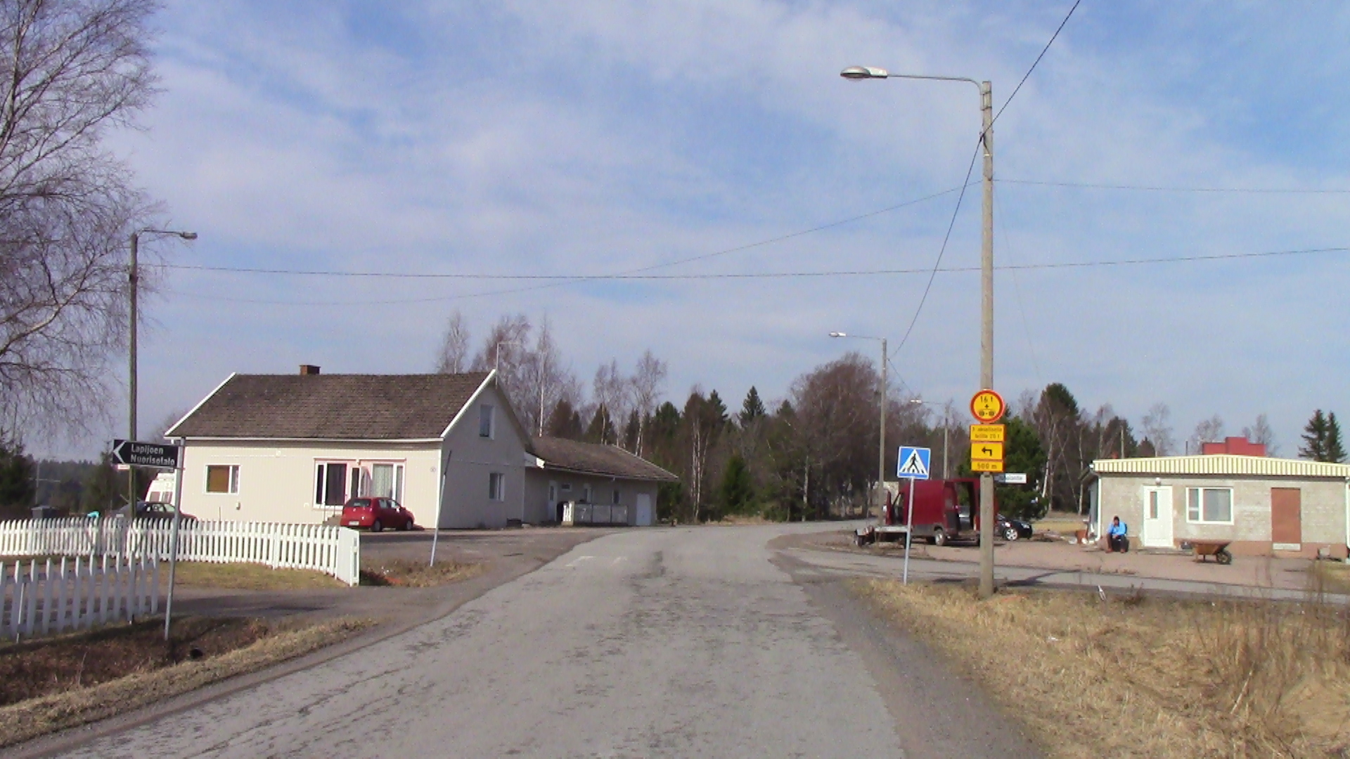 Taipaleentie road at Lapijoki village in Eurajoki, Finland.